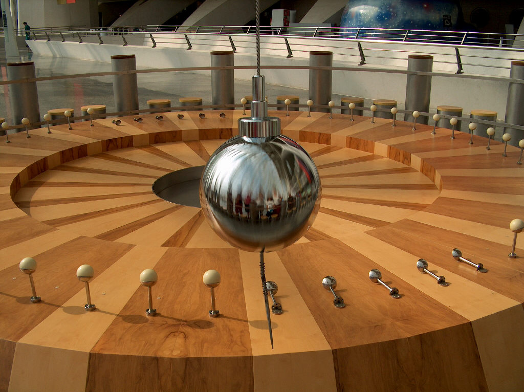 Foucault pendulum